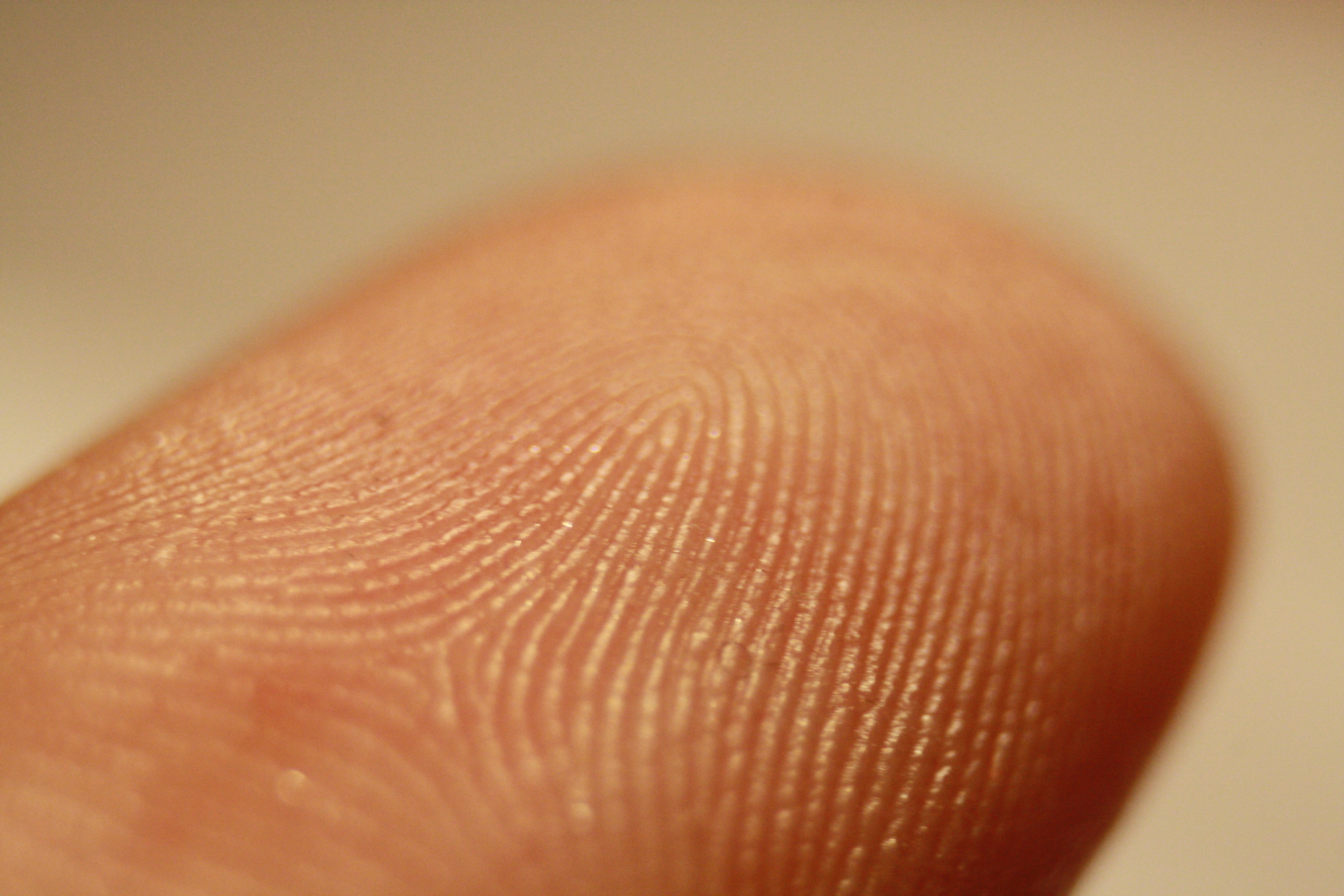 Fingerprint detail on male finger.